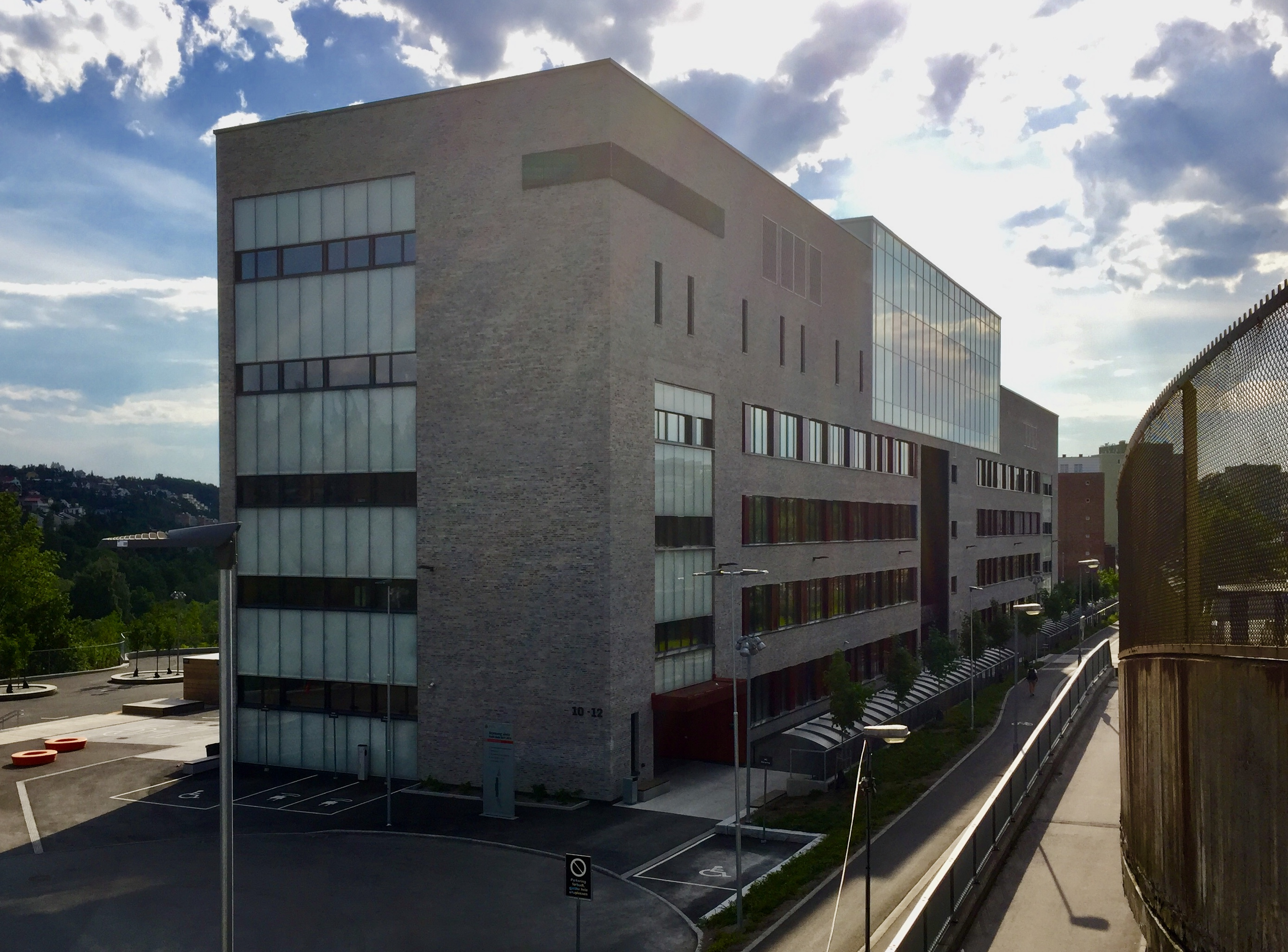 Brynseng skole in Oslo, Norway, seen from Brynseng station